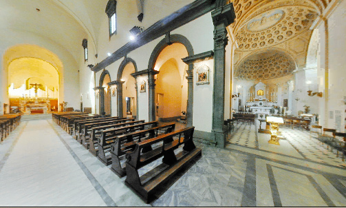 Inside the Temple